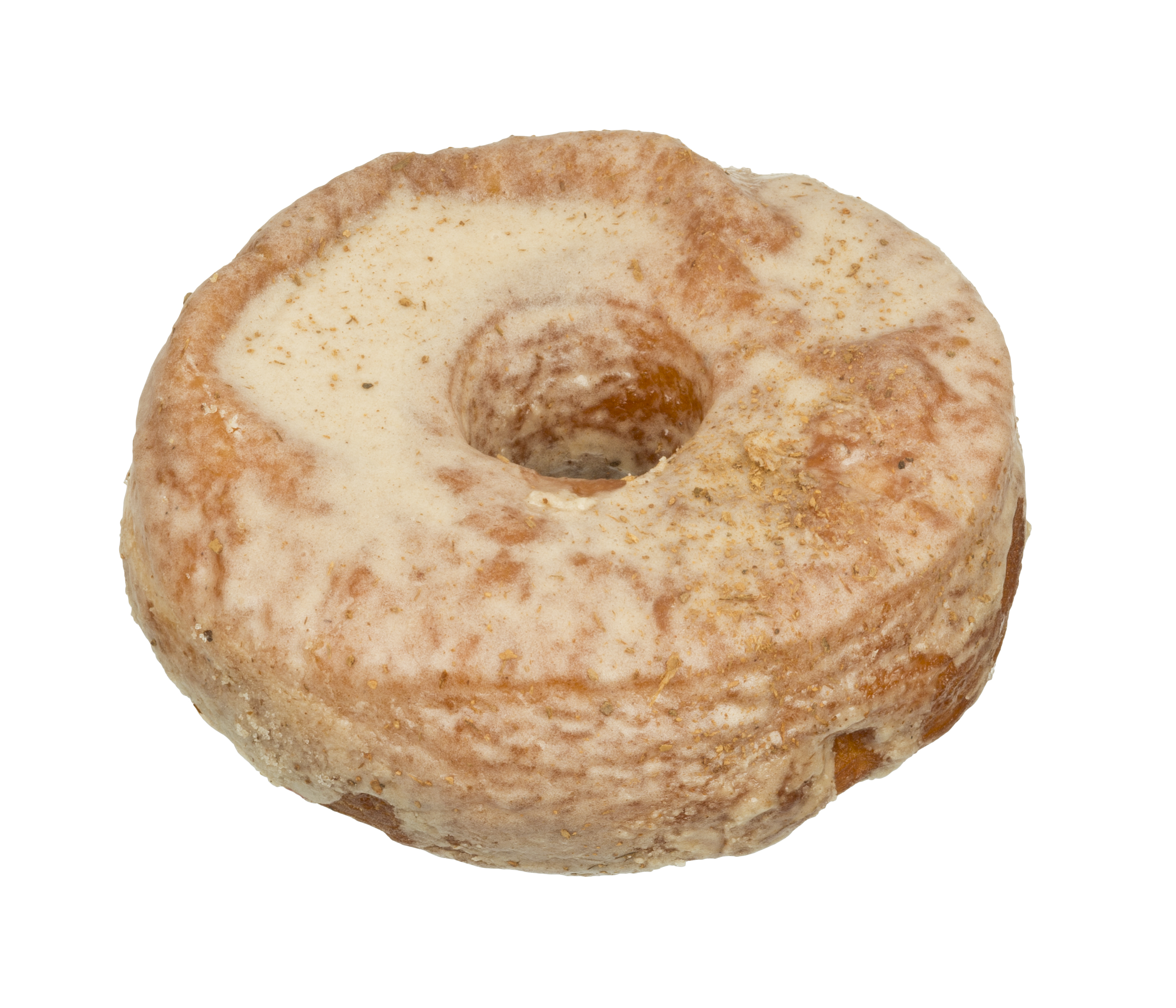 A horchata doughnut/donut from Dough, an upscale donut bakery in Brooklyn, NY. The doughnut features a glaze made of ground white rice, almonds and flavored with Mexican cinnamon and vanilla extract.